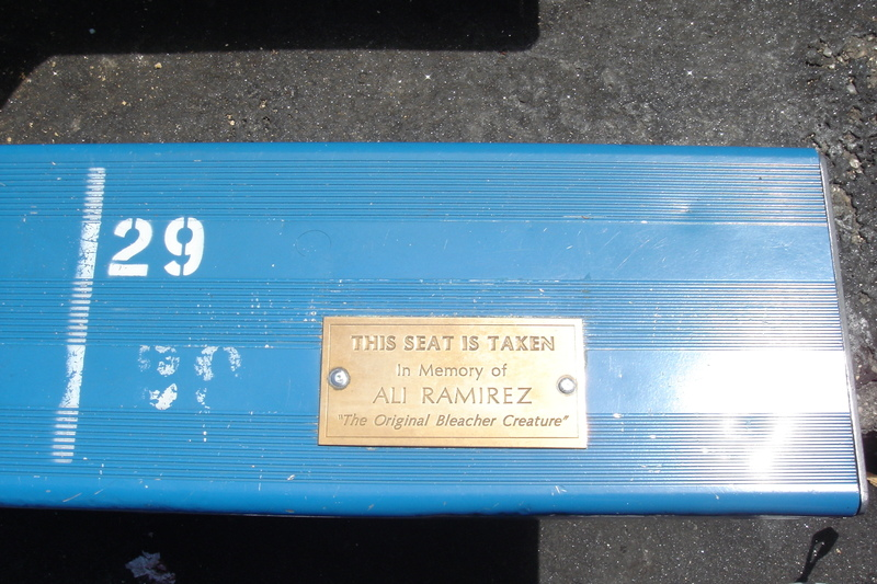 Bench in old Yankee Stadium where seat is dedicated to Ali Ramirez. It reads: "This seat is taken in honor of Ali Ramirez, the original Bleacher Creature."